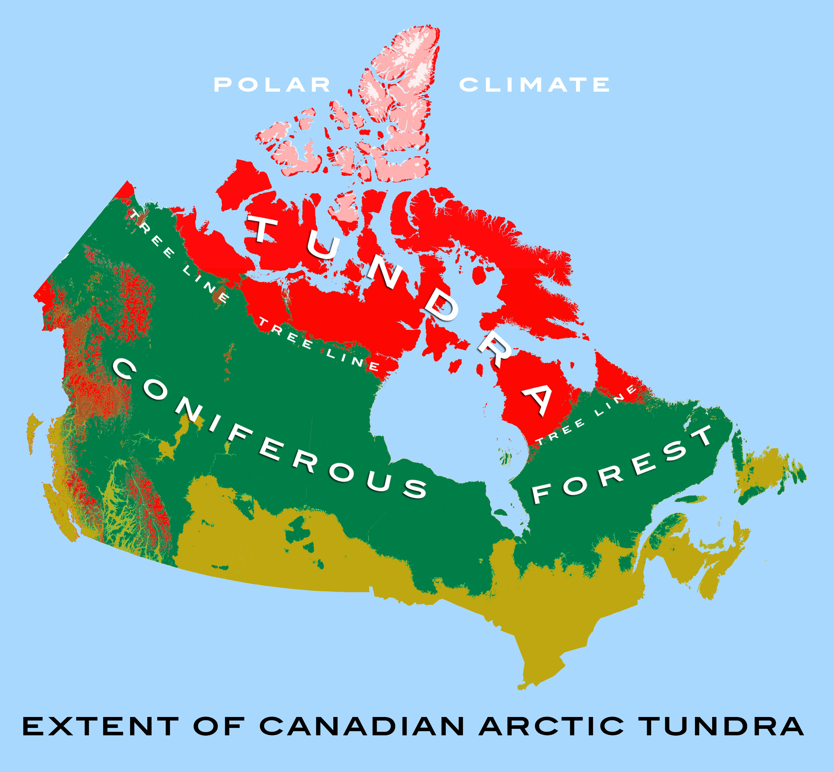 map of the extent of the Canadian Tundra and climatic regions